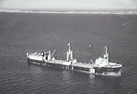 Japanese whaling factory Nisshin Maru No.2 (1937), with national flag painted on her side to indicate her neutral status.